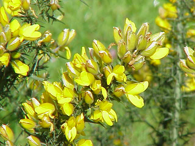 Species: Ulex europaeus Family: Fabaceae Image No. 8